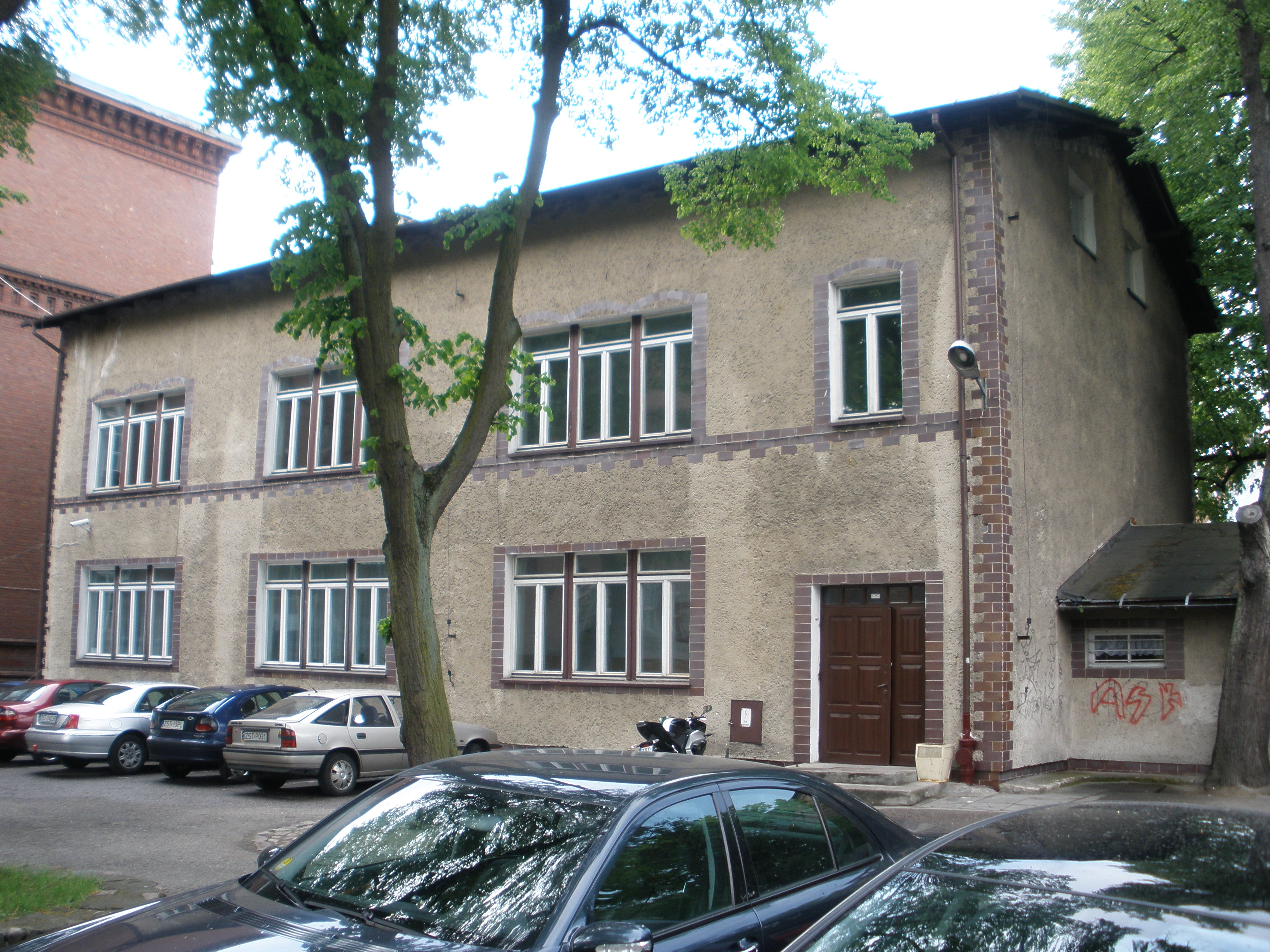 Building which belongs to ILO in Stargard Szczeciński.